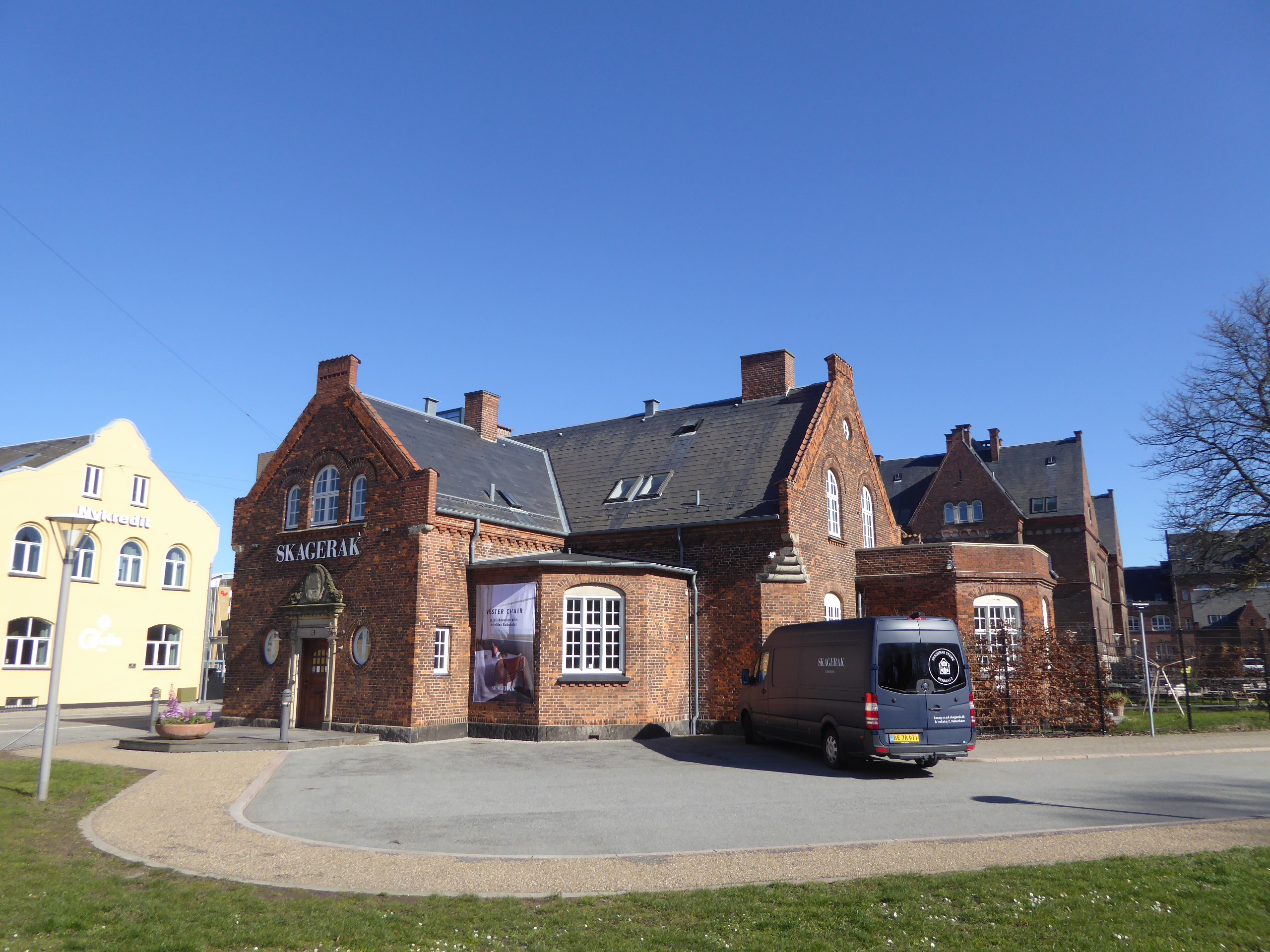 Store of the furniture company Skagerak at Indiakaj in Østerbro in Copenhagen.